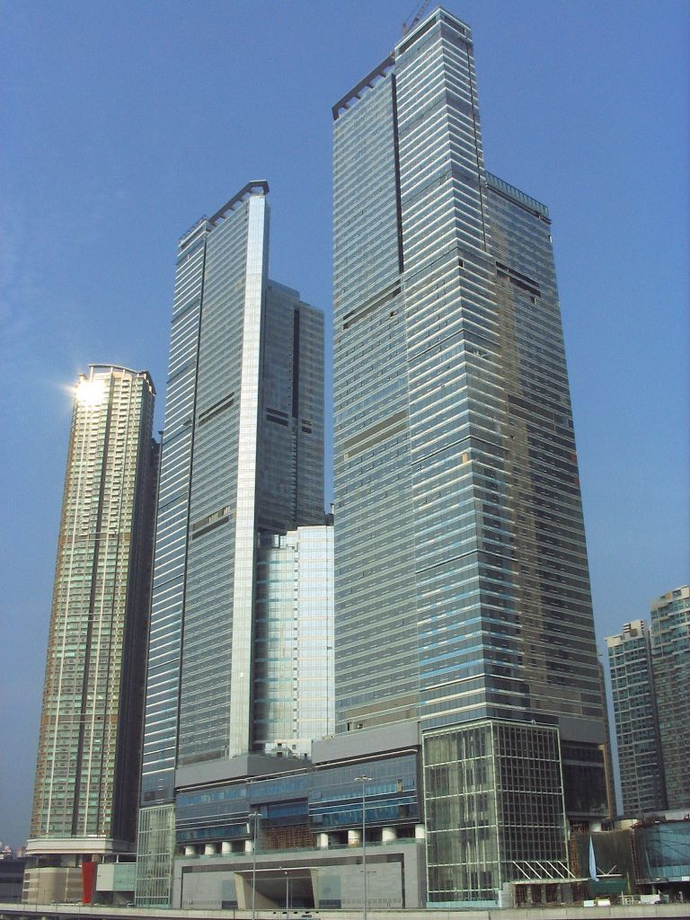 九龍站六期-天璽 The Cullinan, Union Square Package 6